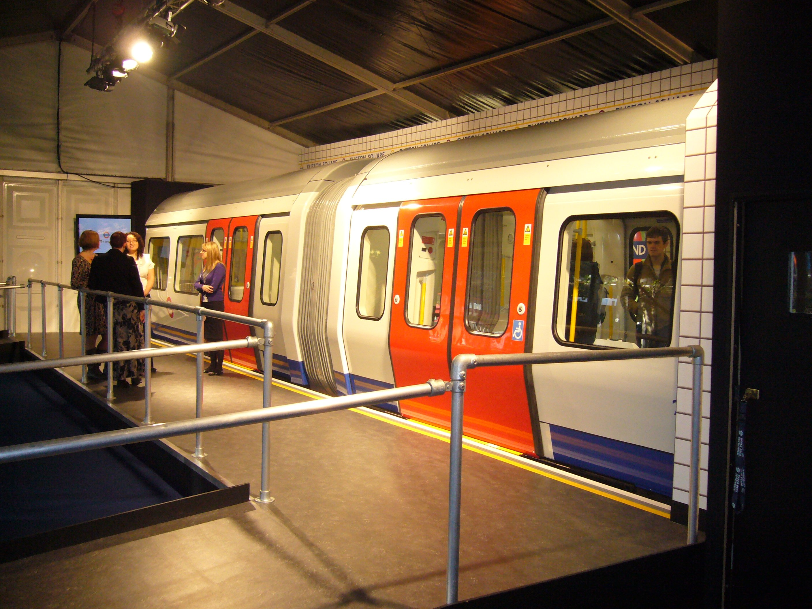 London Underground S Stock mockup - exterior - Euston 29-Sept-08